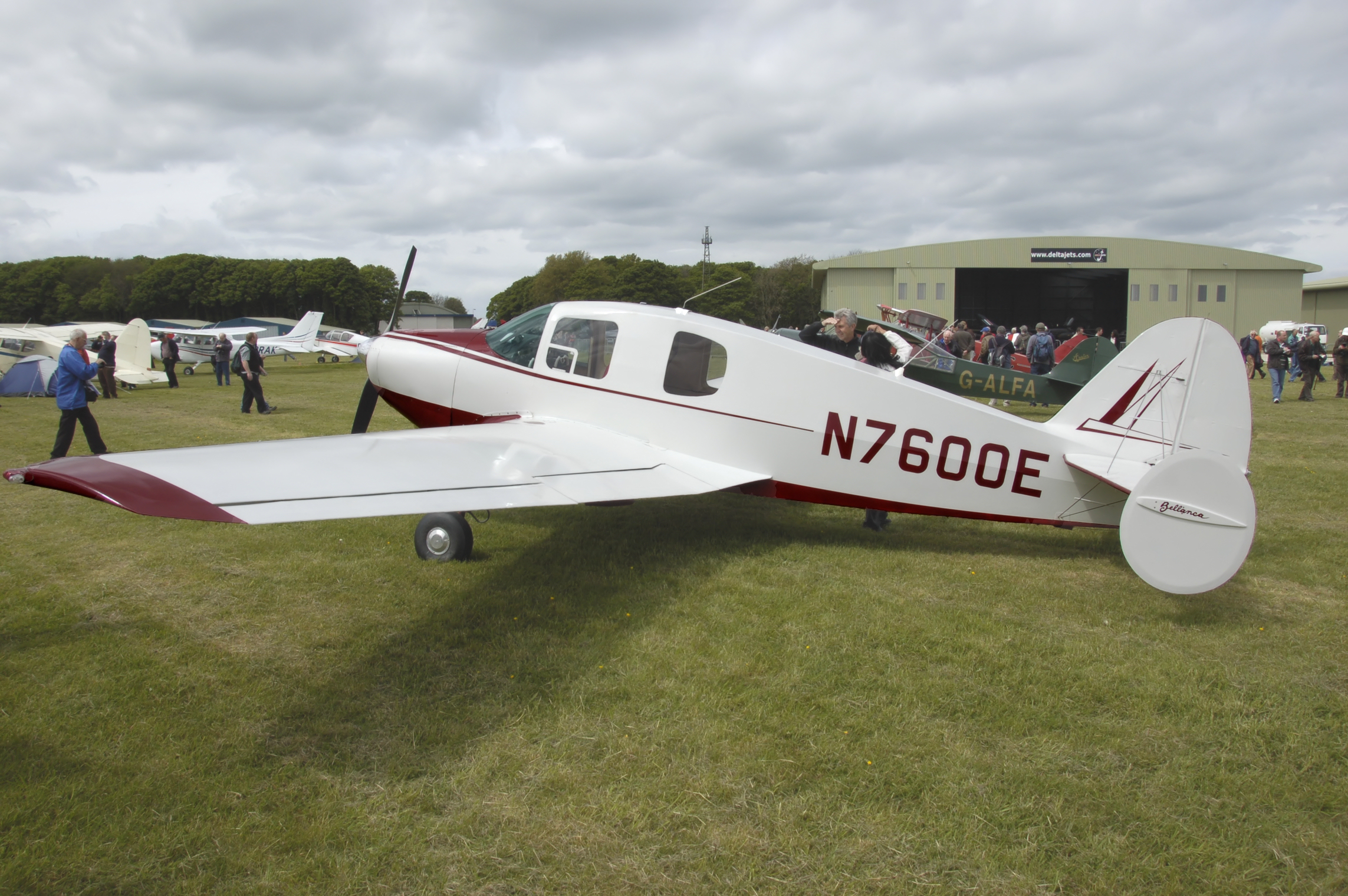 Bellanca 14-19-2 Cruisemaster (N7600E), built 1958, at a vintage aircraft rally - the Great Vintage Flying Weekend, Kemble Airport, Gloucestershire, England.